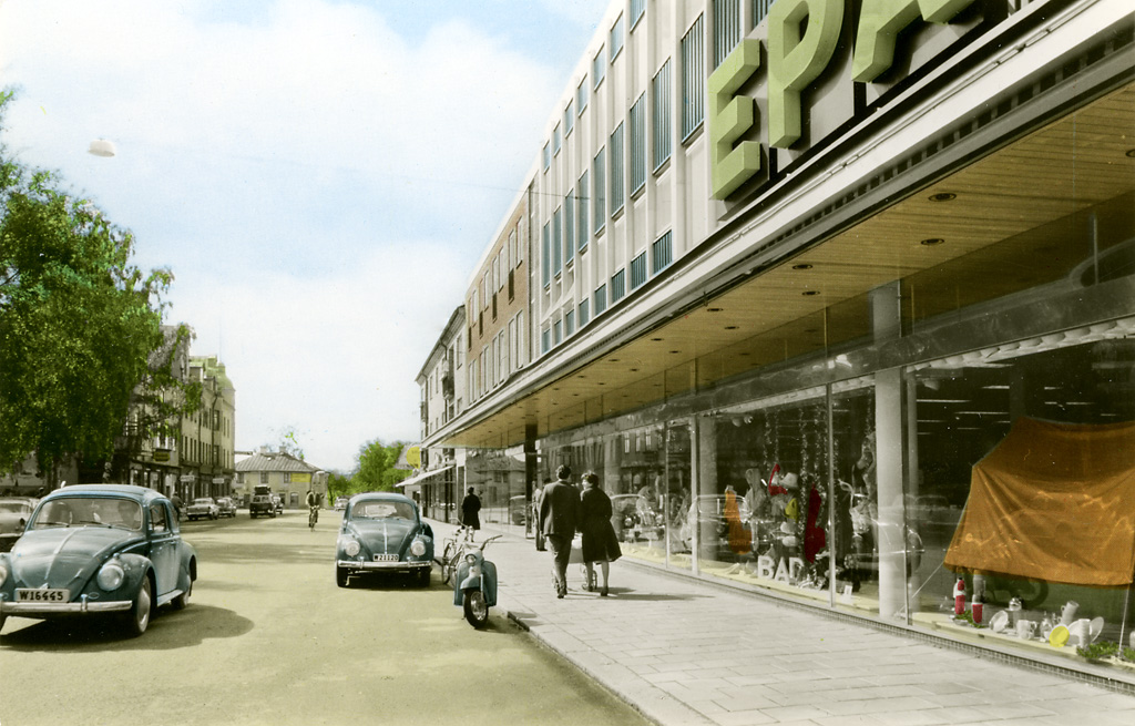 People and cars in Kungsgatan (King street) in Avesta in Dalecarlia. To the right is an EPA department store. Människor och bilar på Kungsgatan i Avesta. Till höger ett EPA-varuhus. Parish (socken): Avesta Province (landskap): Dalarna Municipality (kommun): Avesta County (län): Dalarna Photograph by: Unknown. Almquist & Cöster Date: 1950-1959 Format: Original postcard, tinted Persistent URL: Read more about the photo database (in english)